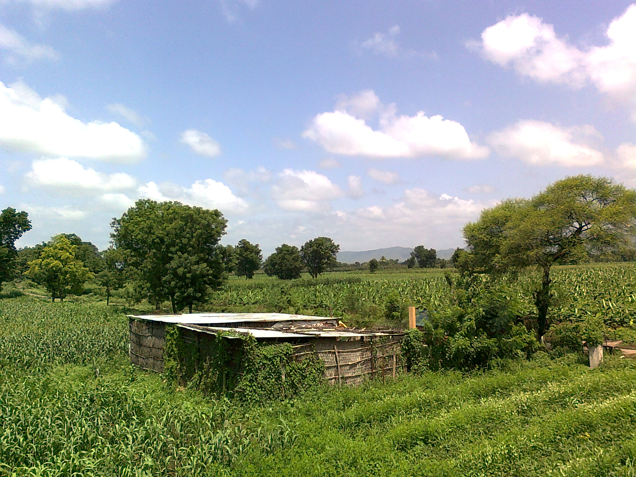 Pic of Hut in farm outside of a Chinawal village of Maharashtra, India